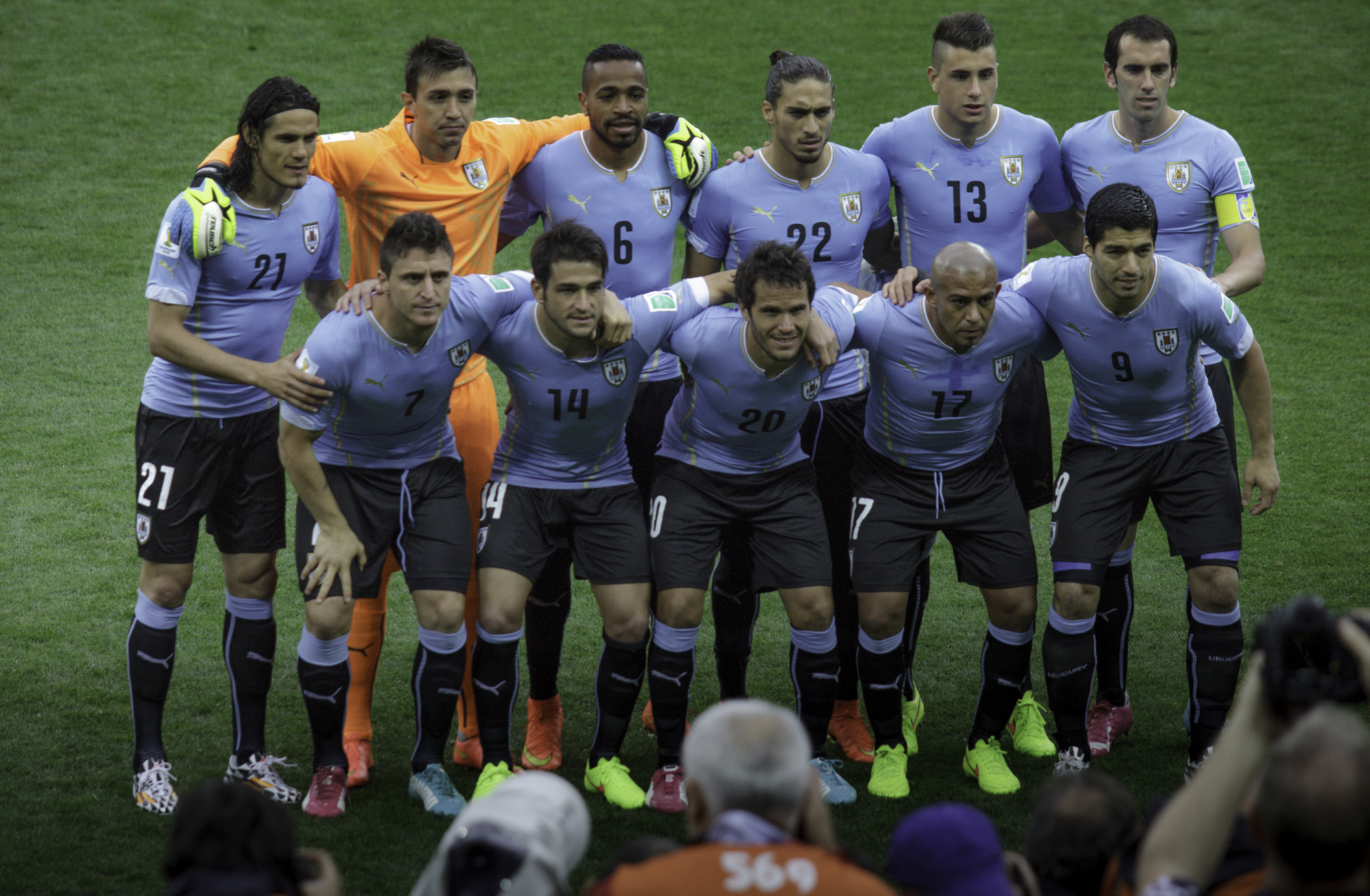 Uruguay and England match at the FIFA World Cup 2014-06-19, Arena Corinthians, São Paulo, Brazil.